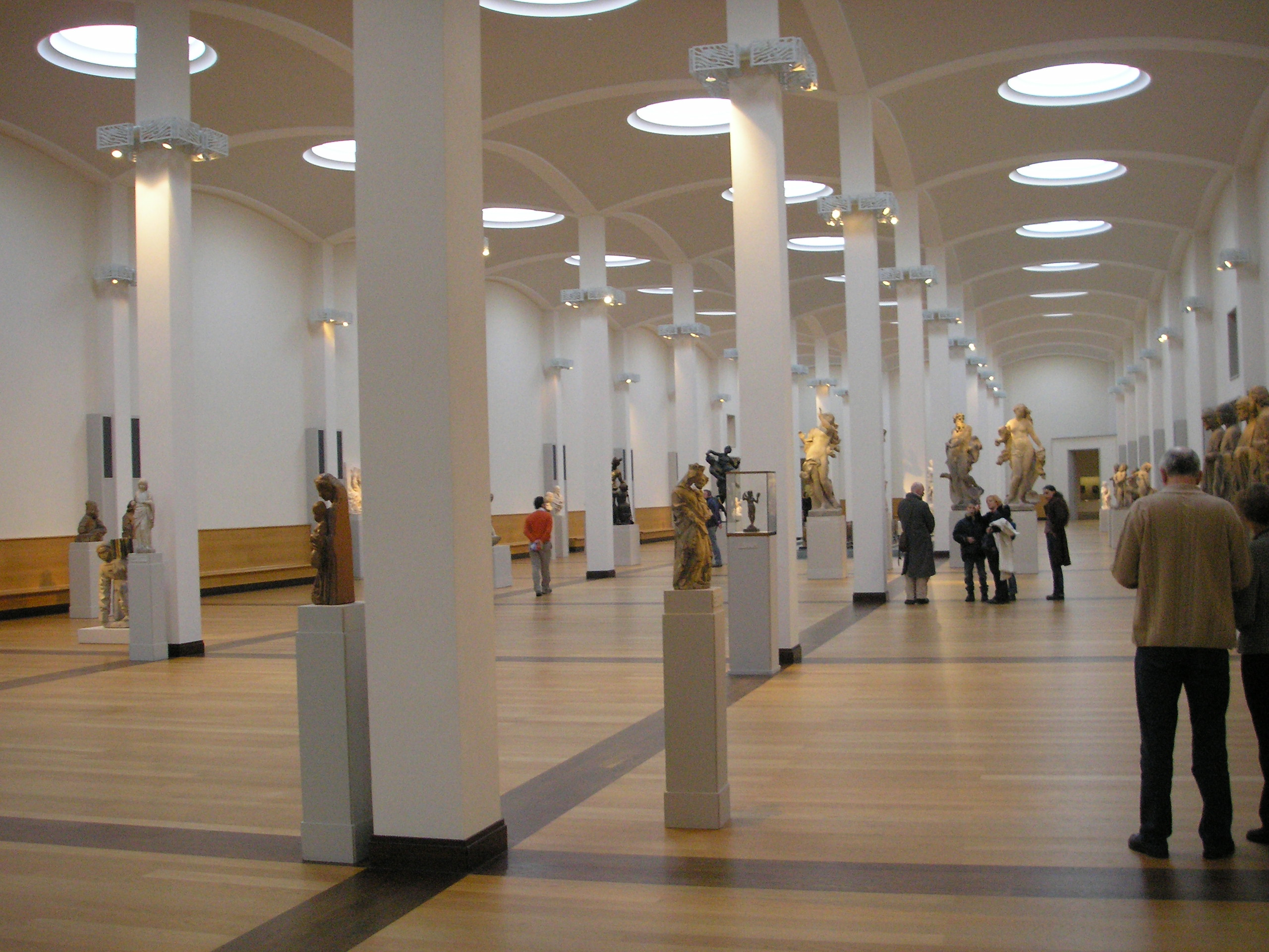 Description: Main hall of the Gemäldegalerie in Berlin. Source: self-made, I release it into the public domain.